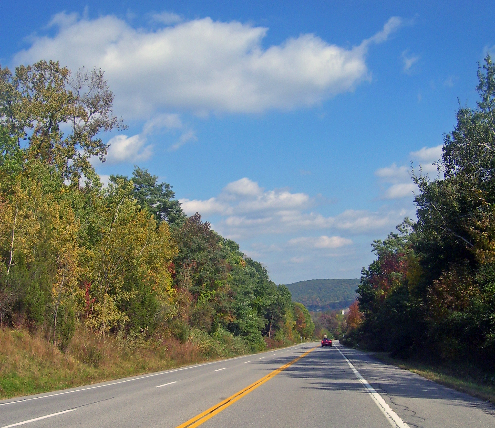 Looking east along NY 55 as it approaches Pawling